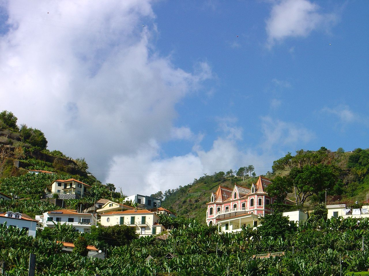 See where this picture was taken. [?]